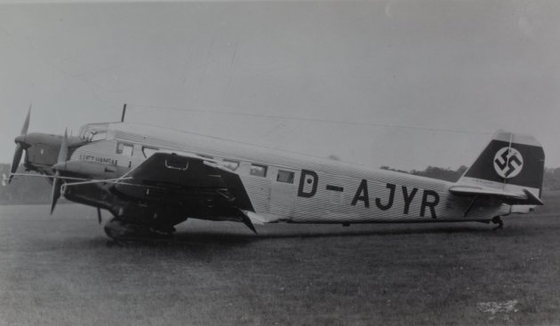 Junkers Ju 52, Kennung D – AJYR „Emil Schaefer“ (Lufthansa), Postflugzeug 38237678 - Catalog:Array - Title:Array - Filename:15_002363.TIF - -------Image from the Charles Daniels Photo Collection.----Album: German Aircraft.-----------PLEASE TAG these images with any information you know about them so that we can permanently store this data with the original image file in our Digital Asset Management System.-----------------SOURCE INSTITUTION: San Diego Air and Space Museum Archive